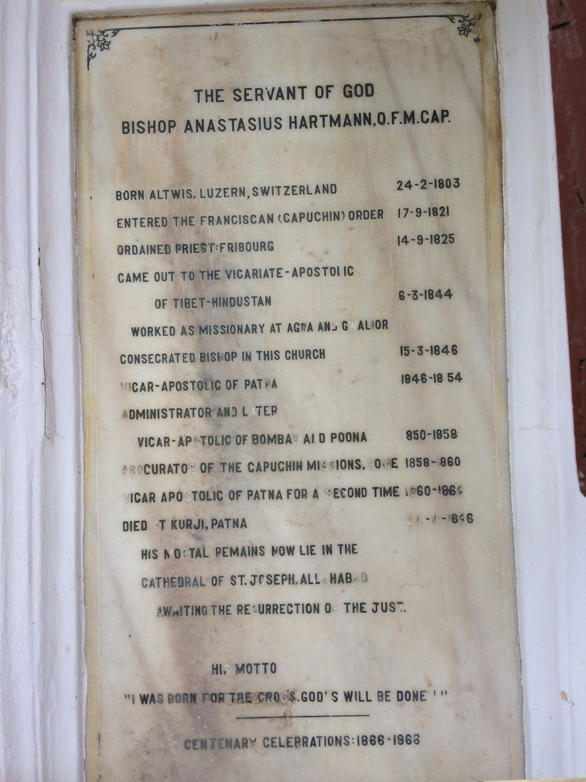 The stone tablet installed at Akbar's Church provides the main events in the life of The Servant of God Bishop Anastasius Hartmann